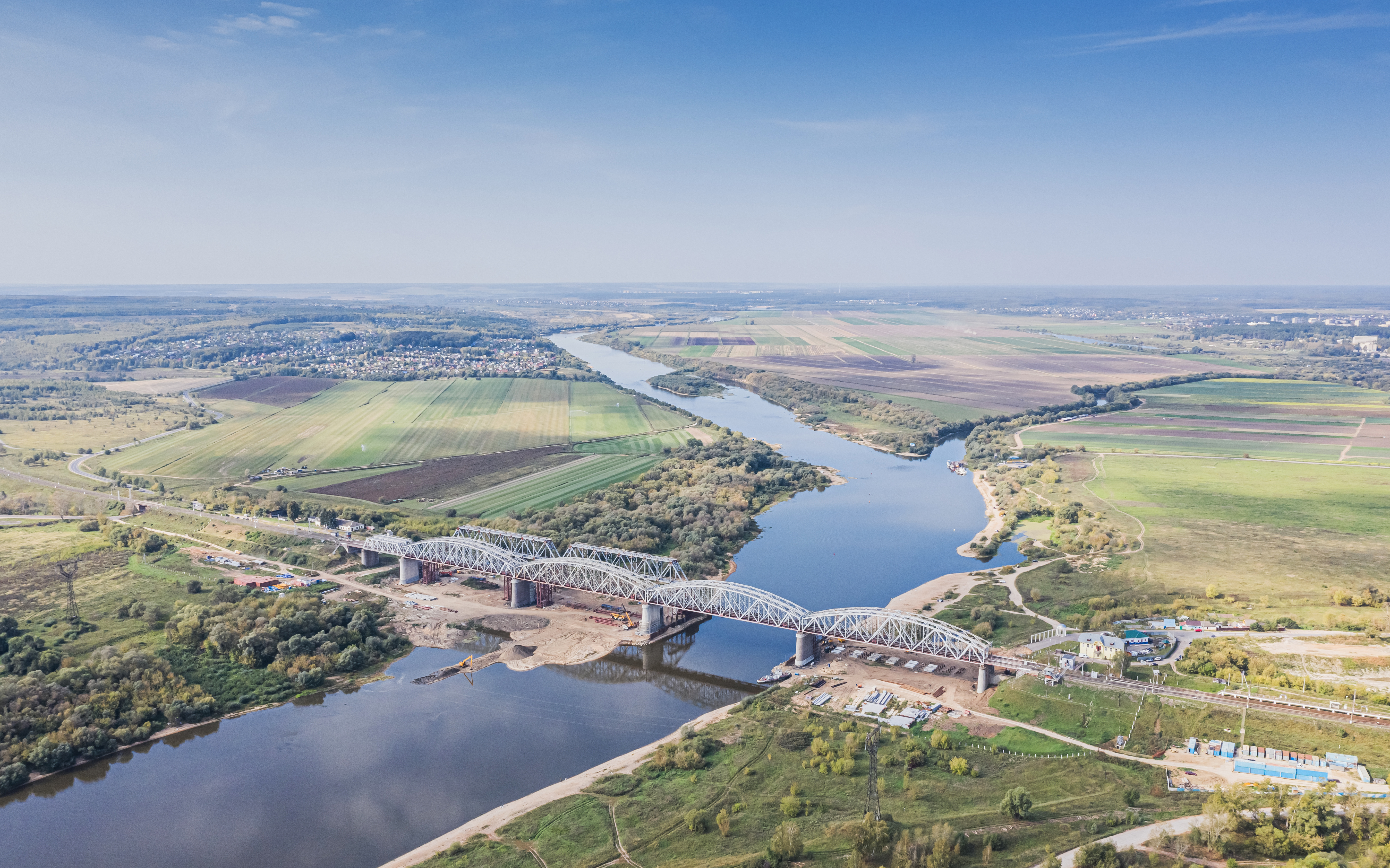 Aerial photo of Oka River near Serpukhov, Moscow Oblast, Russia